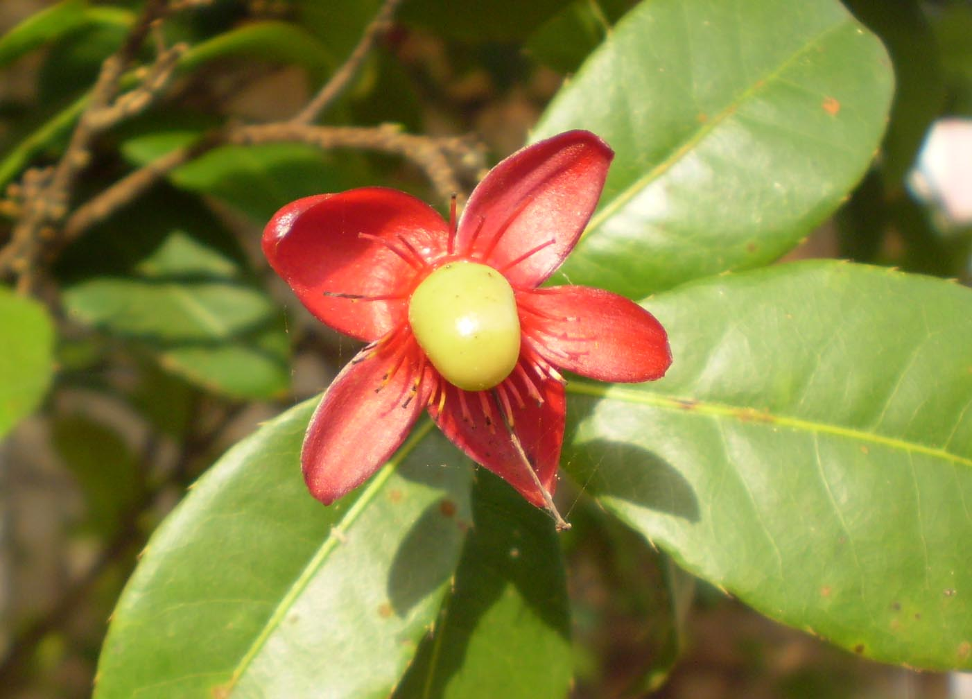 A flower of Ochna thomasiana